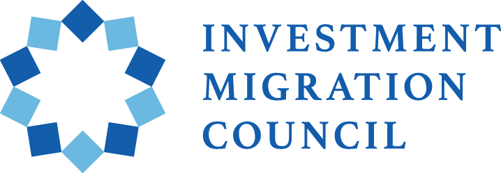 Investment Migration Council Logo